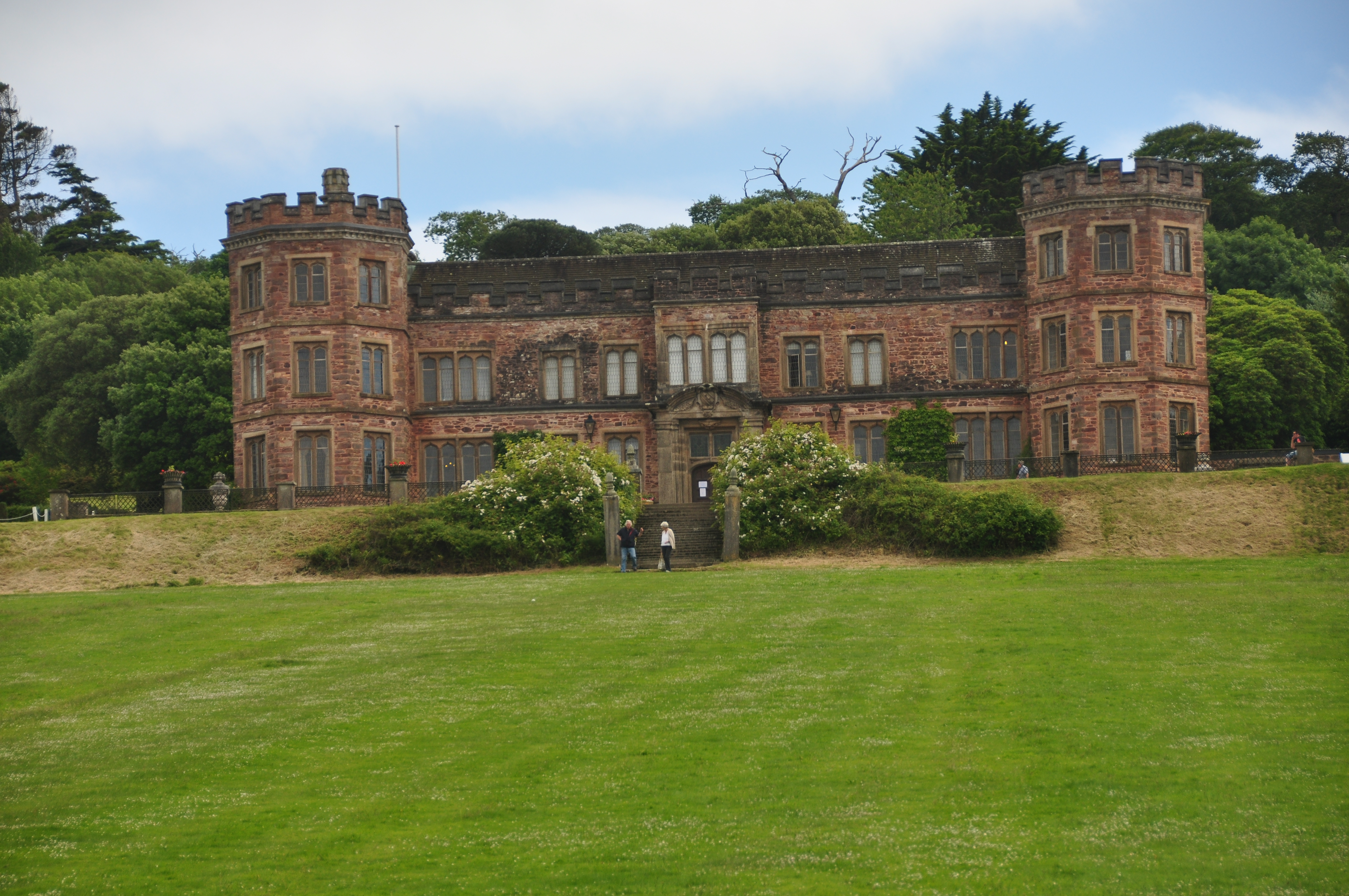 Mount Edgcumbe House